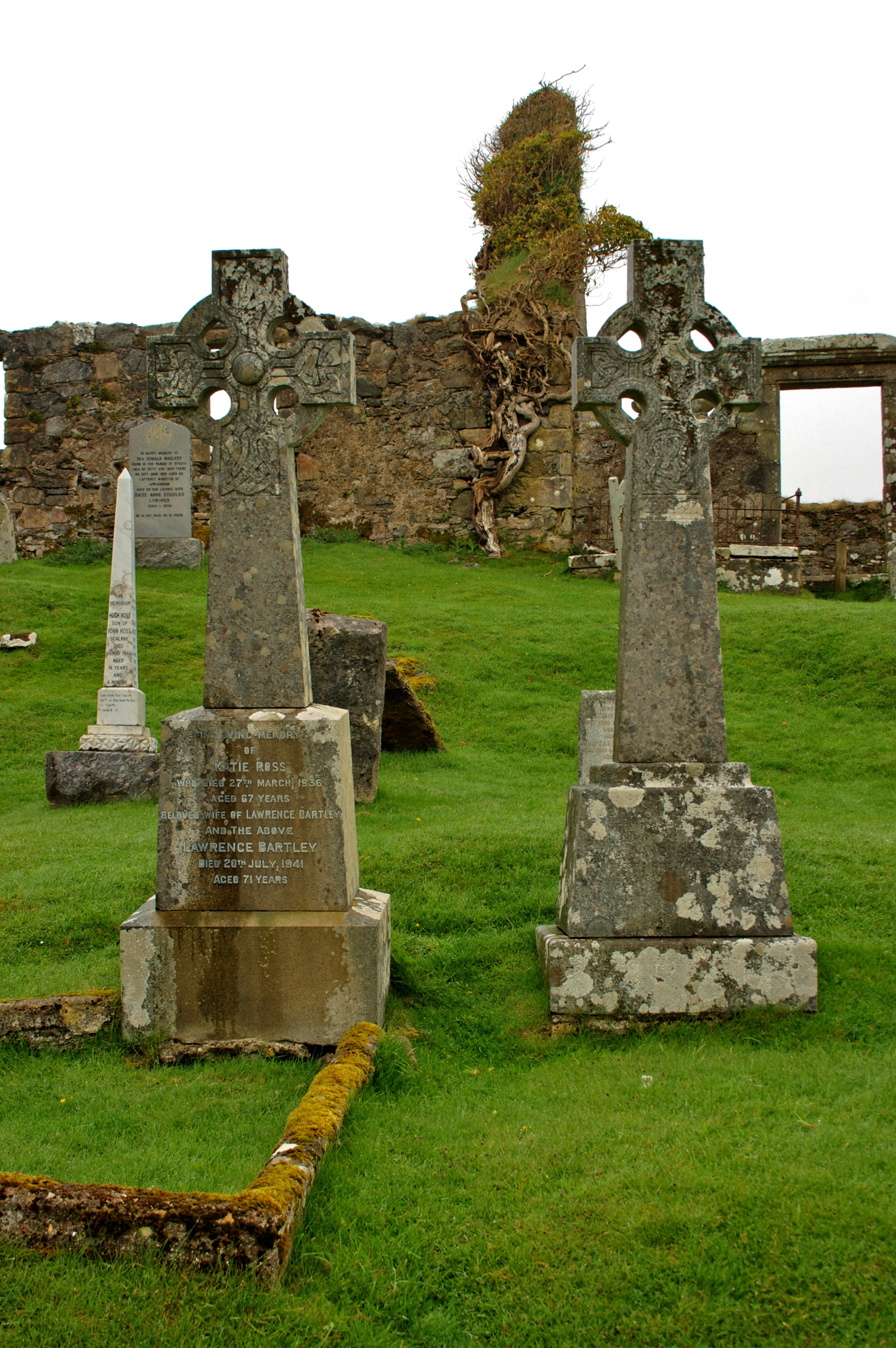 Gravestones at Cill Chriosd.